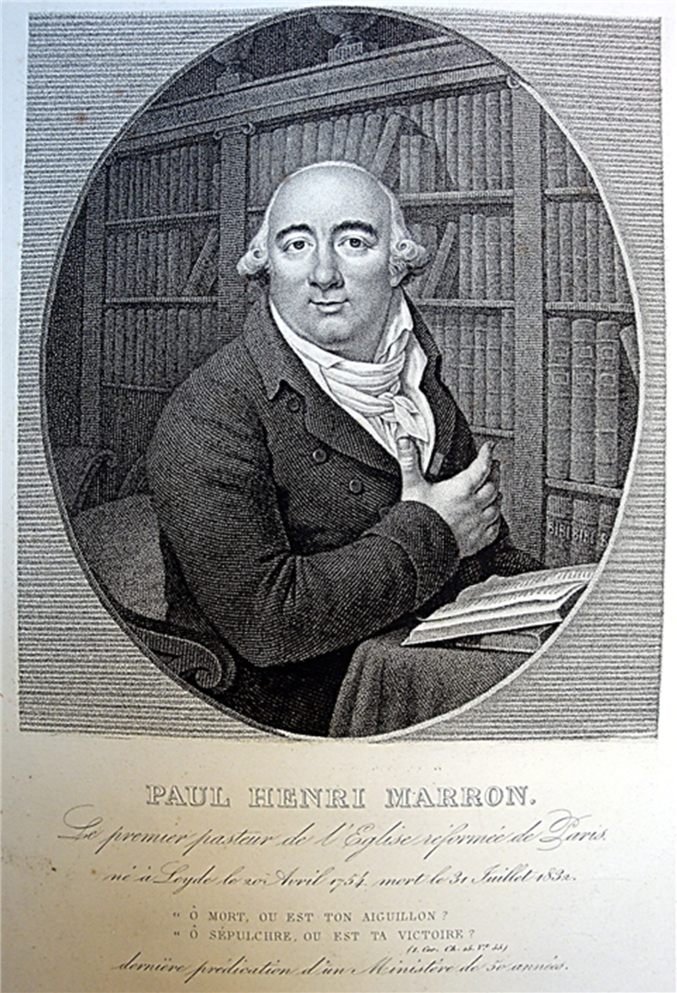 Paul Henri Marron Le premier pasteur de l’Eglise réformée de Paris Né à Leyde le 20 Avril 1754 et mort le 31 juillet 1832